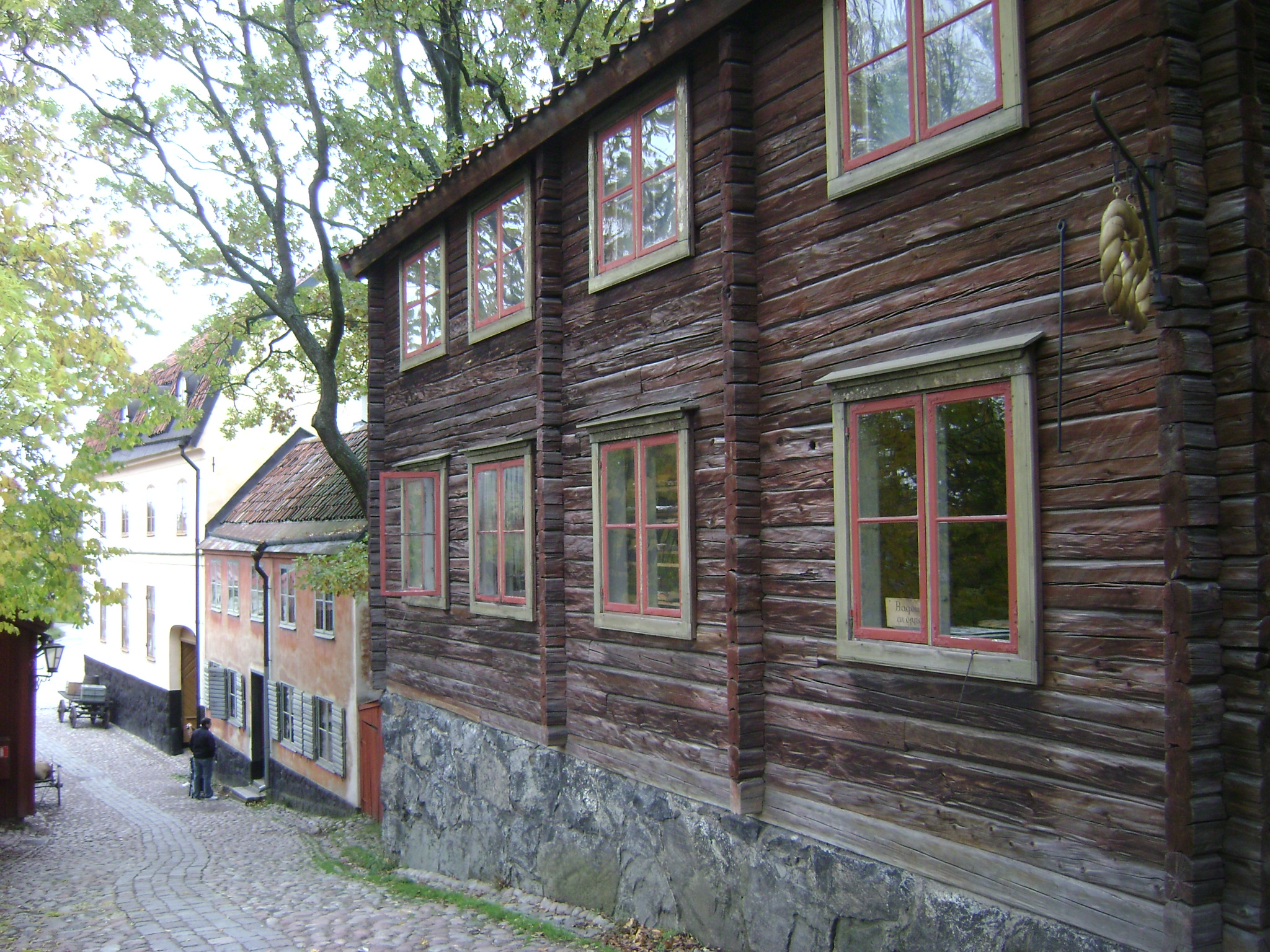 Sweden. Stockholm. Djurgården. Open air museum